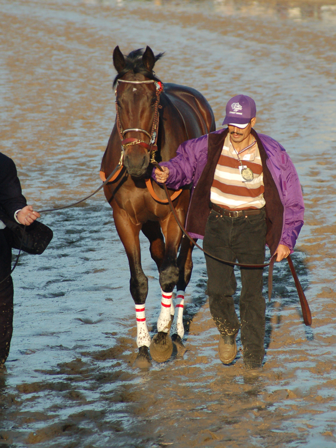 Racehorse Street Sense being lead to the paddock to compete in the 2007 Breeders' Cup Classic at Monmouth Park.